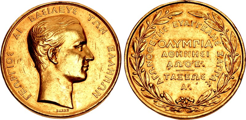 First Class Award, Zappas Olympics, 1875 (42mm, 58.65 g, 12h). Victor’s Award, Class A. Paris mint. Dated 1875 (in Greek alphanumerals ΑΩ´Ο´Ε´) . ΓΕΩΡΓΙΟΣ AI BAΣIΛEYΣ TΩN EΛΛHNΩN (George the First, King of the Hellenes), head right; BARRE below / OΛYMΠIA/AΘHNHΣI/AΩ´O´E´./TAΞEΩΣ/A´. (Olympics/at Athens/1875/First Class) in five lines; AΓΩNOΘETHΣ EYAΓΓEΛΟΣ ZAΠΠAΣ (Organizer of the Games, Evangelis Zappas) above; all within olive and laurel wreath. Edge: (bee) OR. Gadoury & Vescovi 2; see Chaponnière & Firmenich 5, lot 528 (for a Class B in gold); cf. Forrer I, pp. 50-1 (for Barre’s succession to the office of graveur général of the Paris mint in 1855). VF, numerous contact marks, mount removed. Extremely rare, one of ten produced and awarded.